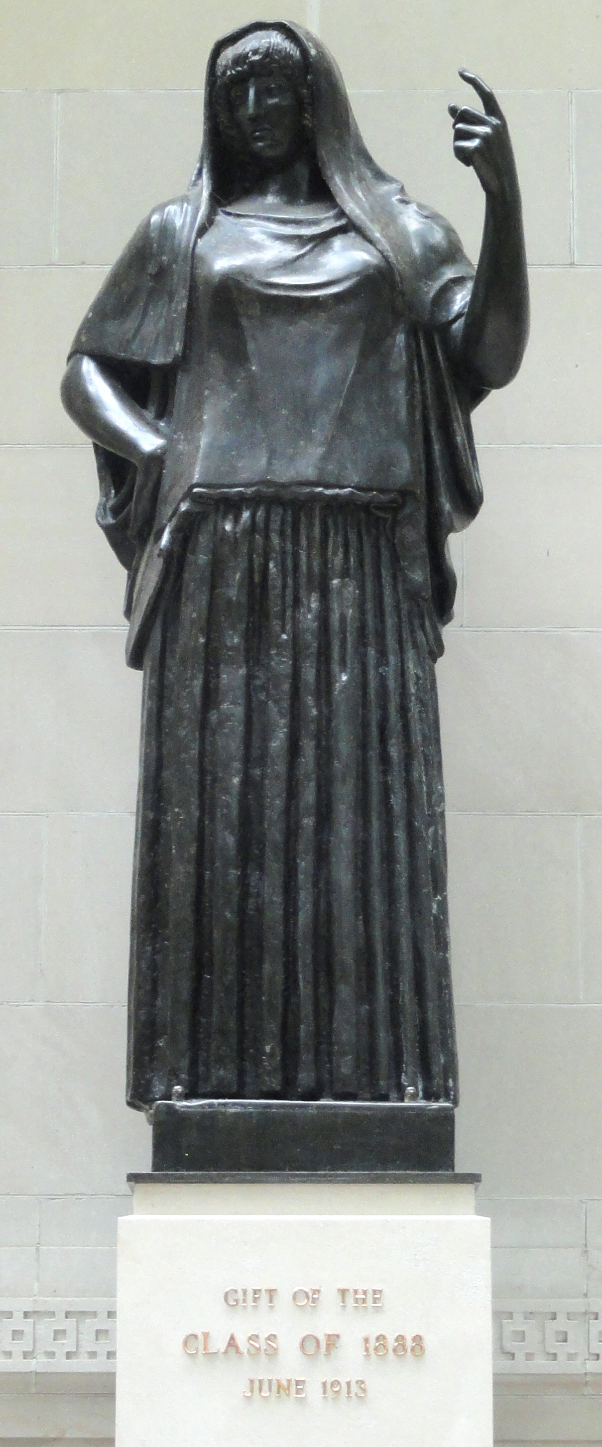 Statue of Hestia. Margaret Clapp Library, Wellesley College, Wellesley, Massachusetts, USA.